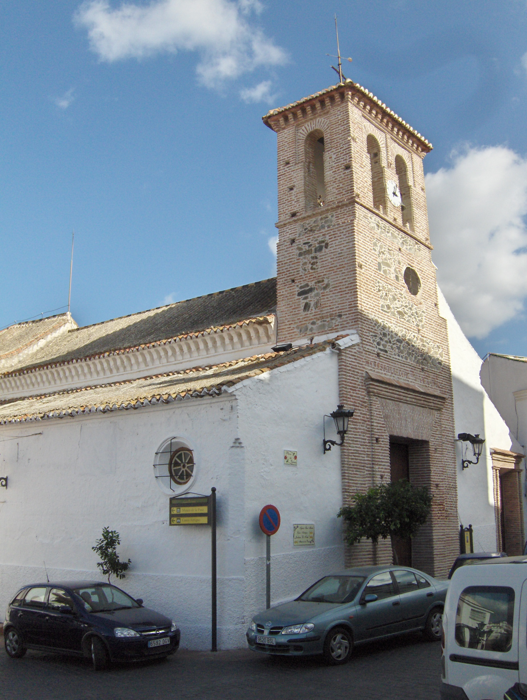 San Mateo Church, Almáchar